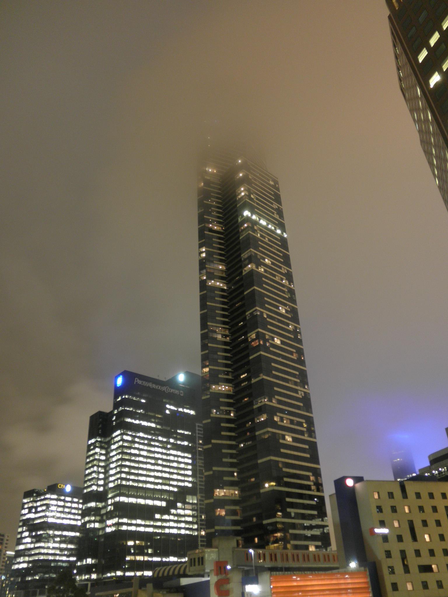 Eureka Tower covered in low clouds at night